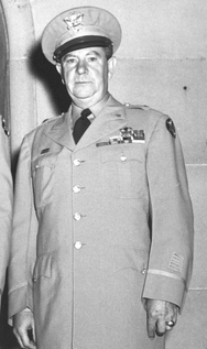 Brigadier General William T. Sexton in front of the Sixth Army Headquarters.